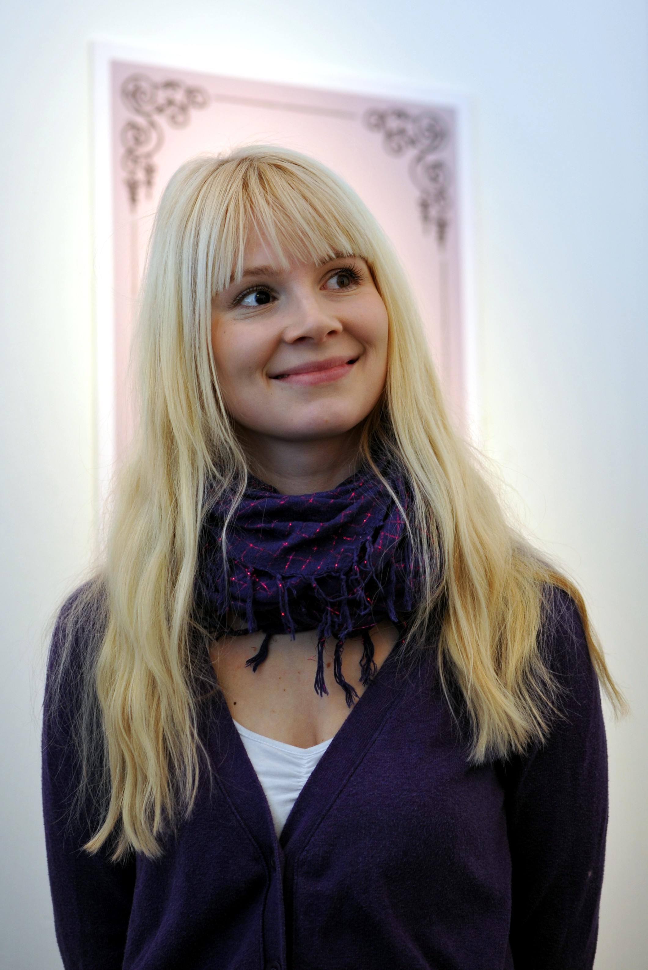 Pamela Tola, Finnish actress, Helsinki, February 2010.